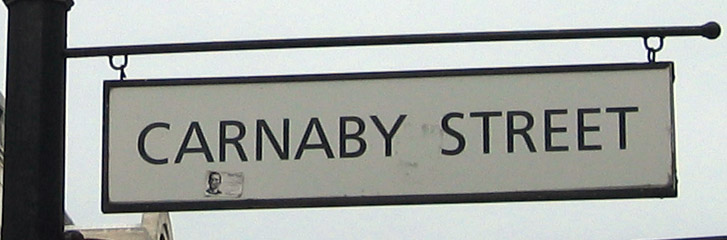 Carnaby Street sign, London. Taken September 28 2005 by C Ford.